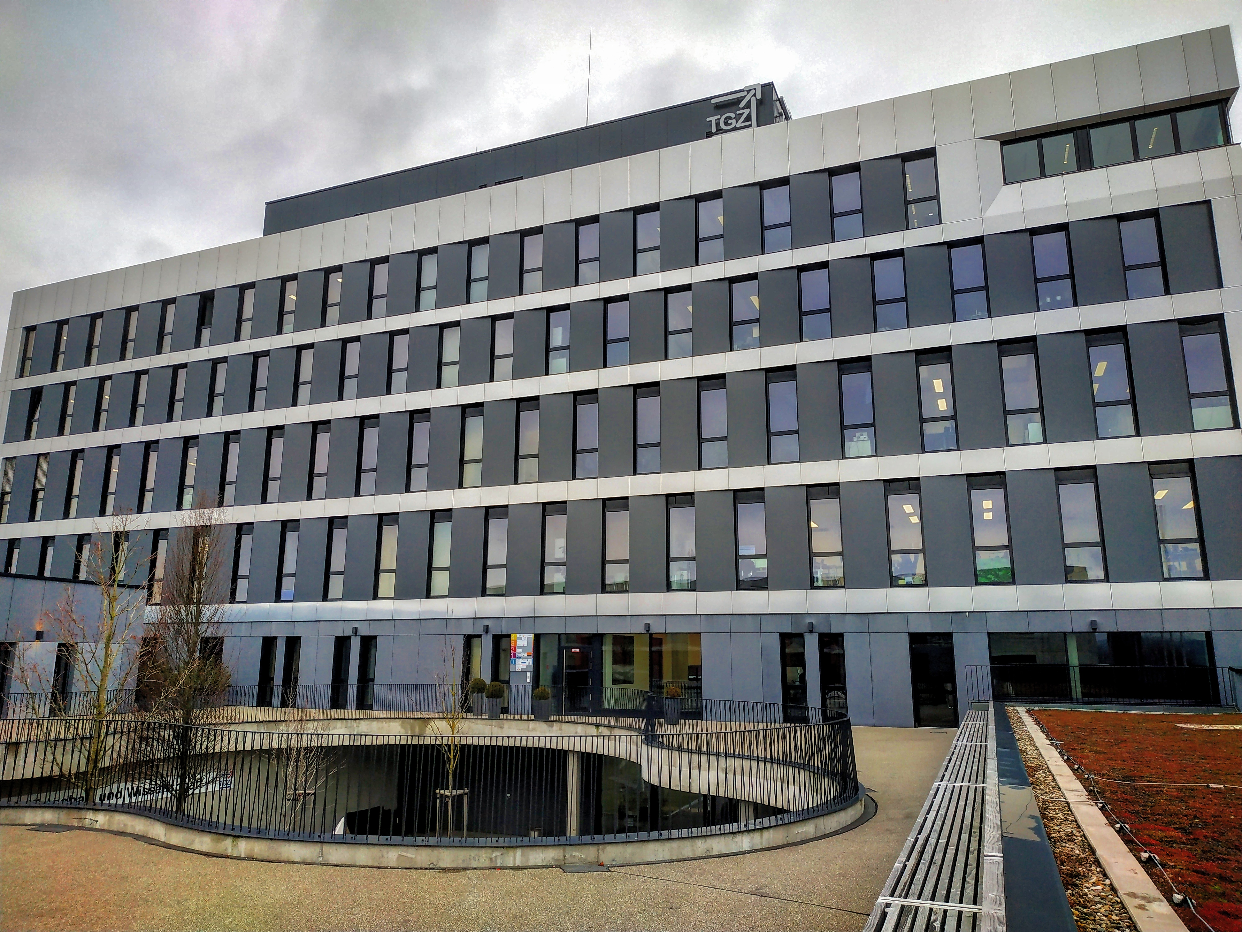 Magdalene-Schoch-Straße 5 (vormals: Allesgrundweg 12, 97218 Gerbrunn) Phone number: 0931 - 3292954-10 Weblinks Homepage des ZfT